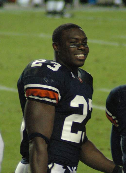 Description: American football running back Ronnie Brown at his final home game at Auburn University against the University of Georgia. Source: self-made Photographer: J.Glover with a Nikon D70 on November 13, 2004.